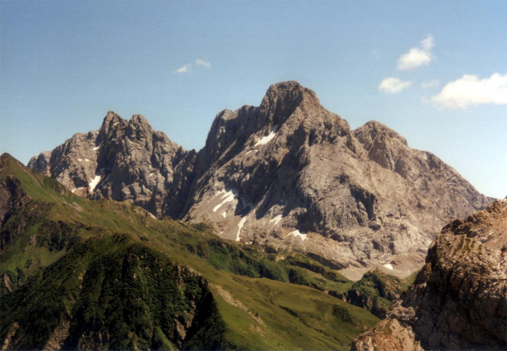 Hohe Warte, Monte Coglians (r.) and western Kellerspitze, Creta delle Chianevate (l.) in the Carnic Alps, Austria/Italy as seen from NW